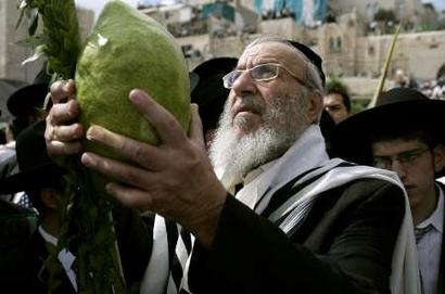 A Yemenite Jew holding a huge Yemenite Citron along with the rest of the Four Species during prayer at the Western Wall